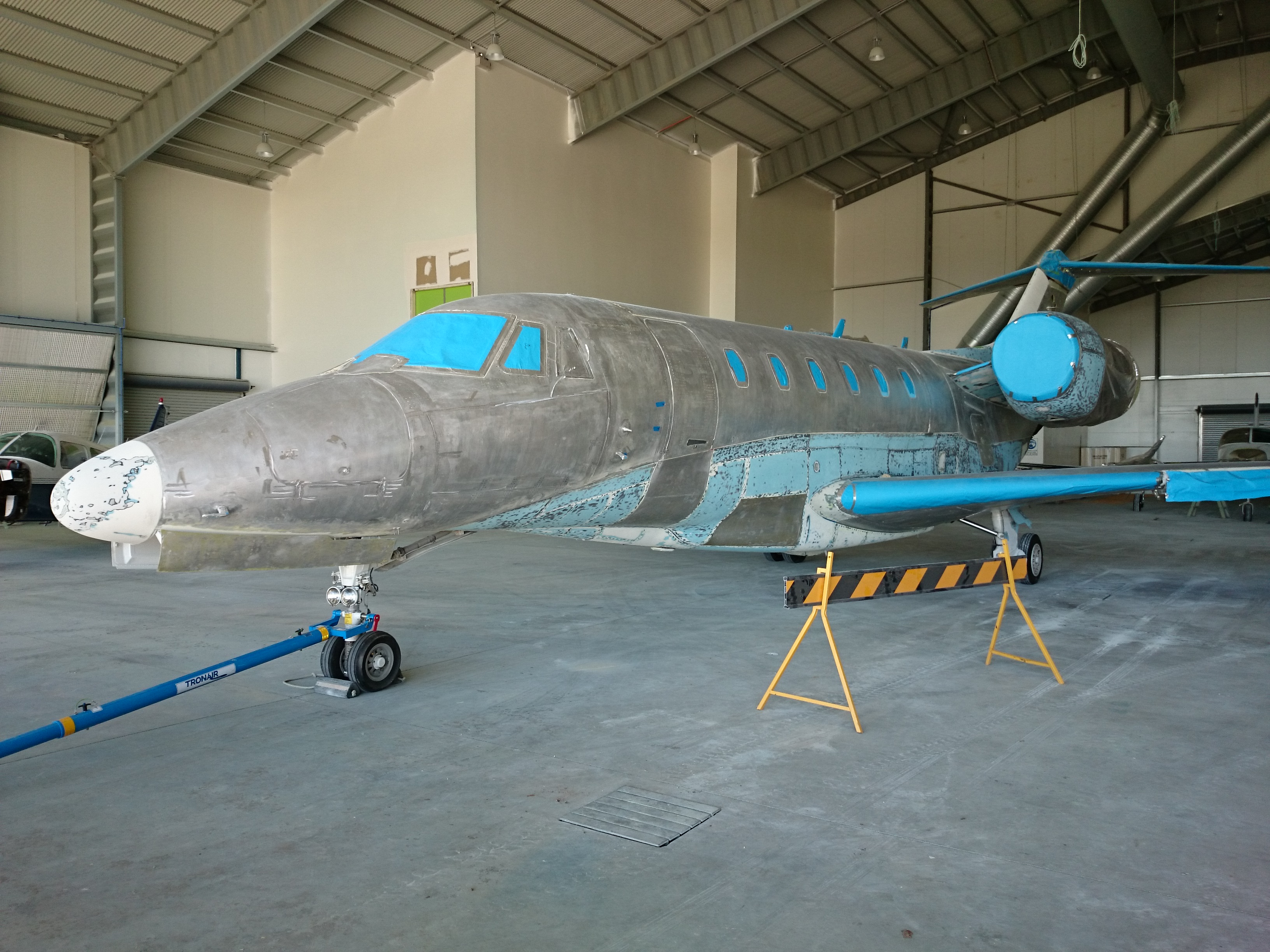 Queensland Nickel Pty Ltd (VP-CFP) Cessna 750 Citation X in the Douglas Aerospace hangar.